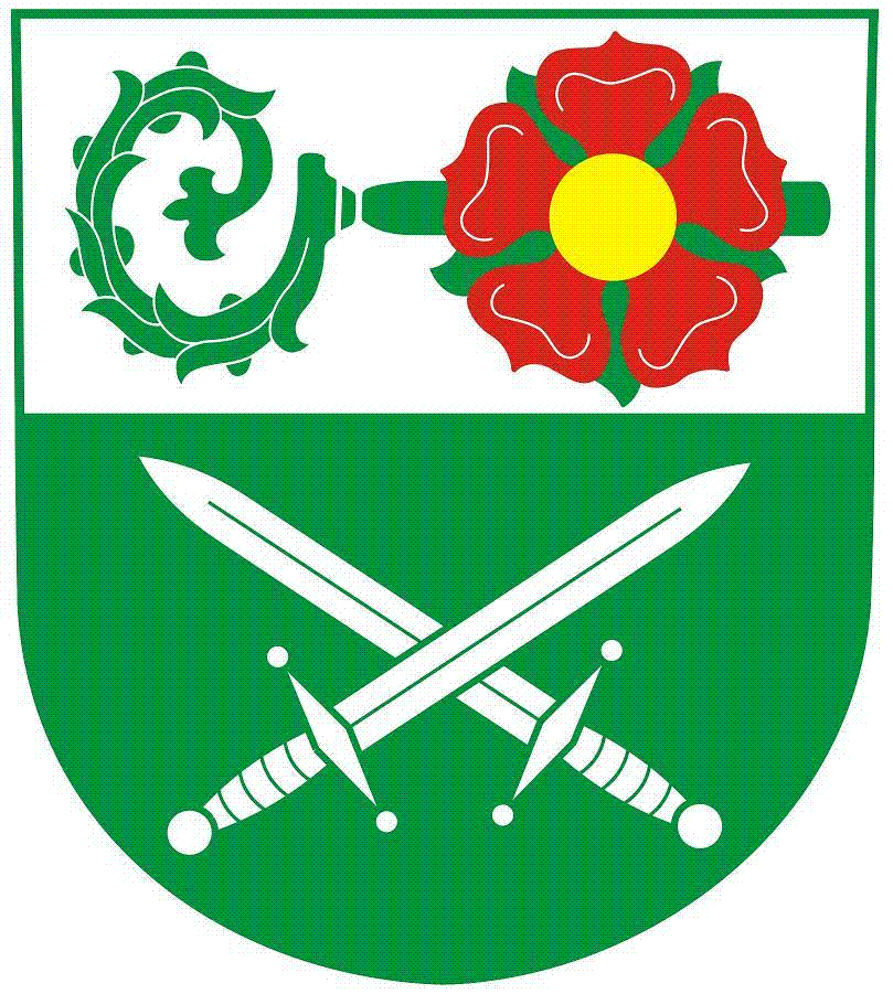 Coat of arms of Boletice military training area, a quasimunicipality in Český Krumlov District, Czech Republic.